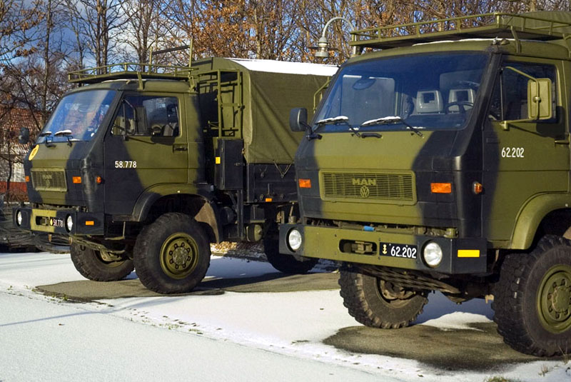 Two MAN 8.136 FAE trucks operated by the danish army (the left one) and the danish navy (the right one)